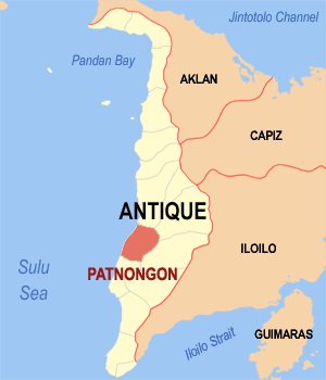 Map of Antique showing the location of Patnongon